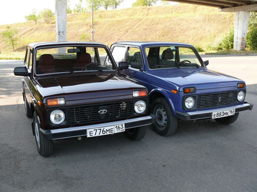 Lada Niva 2008 vs Lada 4x4m 2009